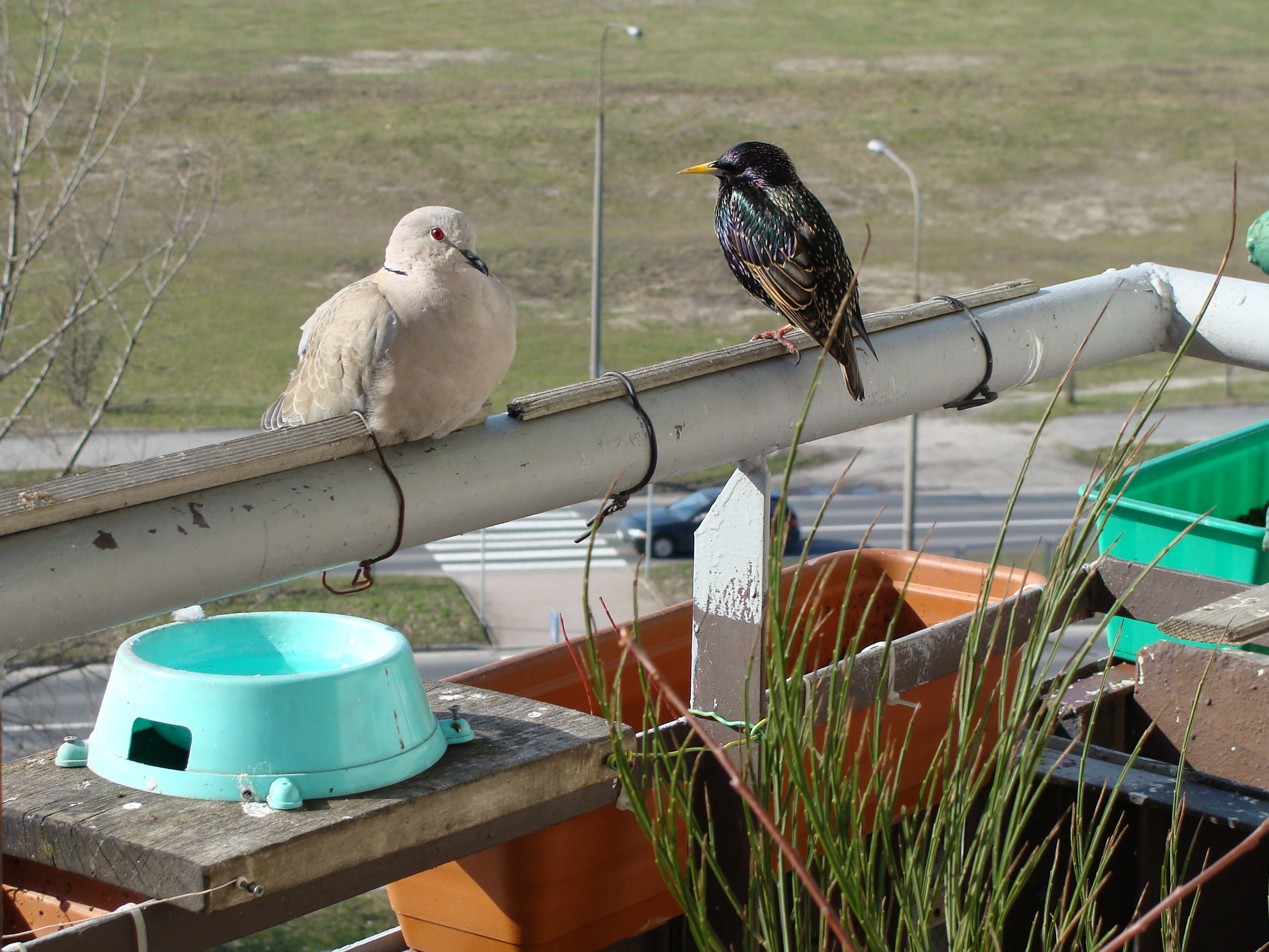 Watering trough